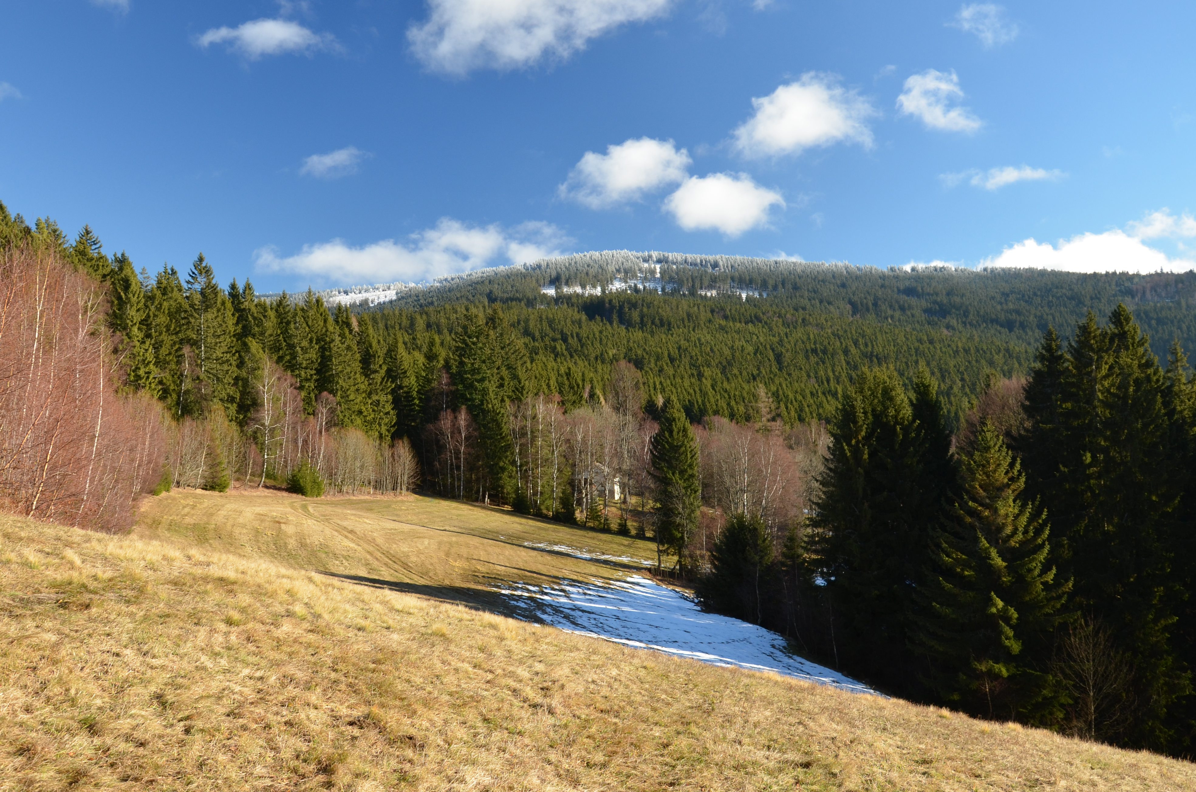 Mountain Můstek (1234 m), Šumava